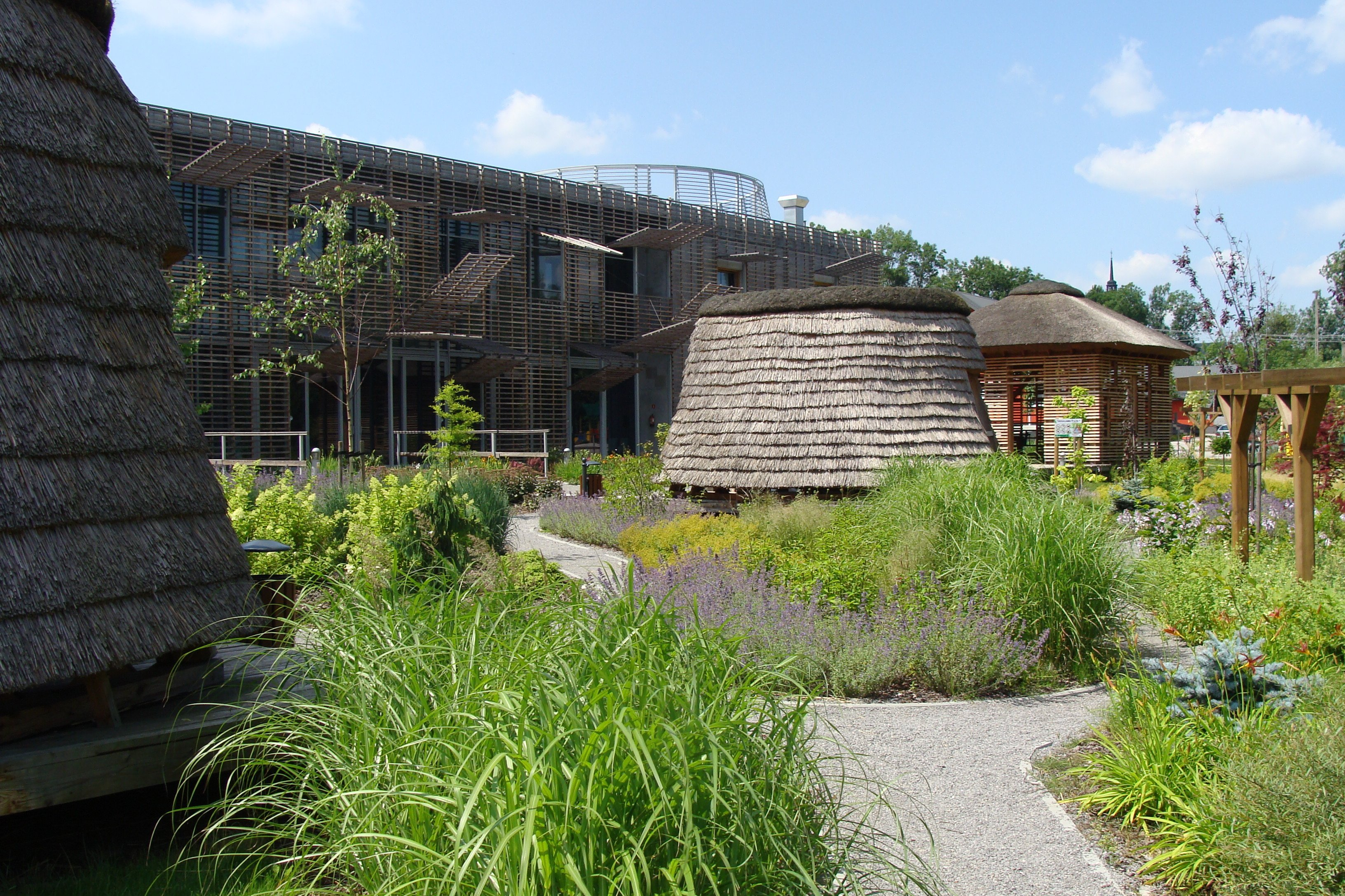 European Tale Centre.Pacanów. Poland.